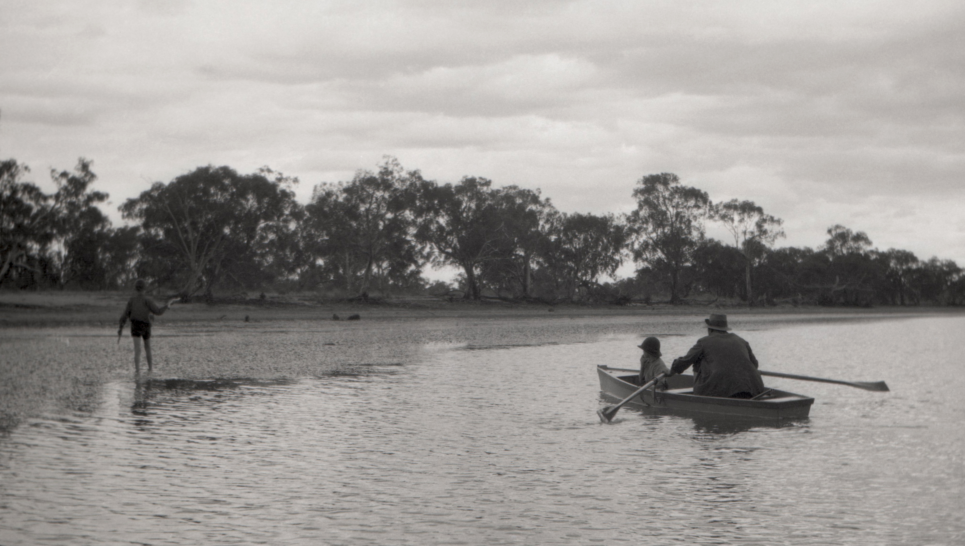 The Smith family boating on the lake.